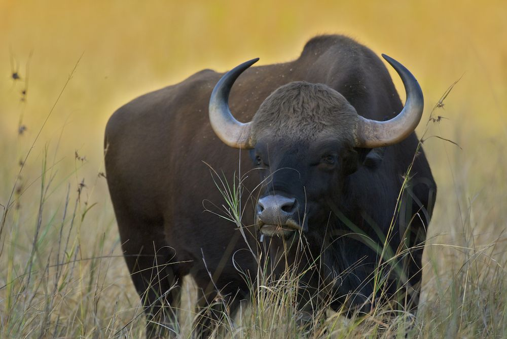 Portrait of male Gaur or Indian Bison (Bos gaurus) grazing. This massive animal is the largest wild bovine in the world, can be up to 3m tall, and weigh up to 1.500kg.